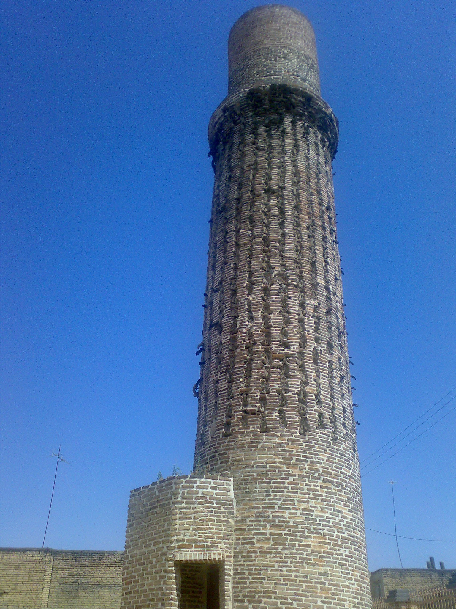 Monument tower at the Tomb of Shams Tabrizi — in Khoy, South Azerbaijan province, Iran. The famous poet from Ancient Persia is buried at the foot of this tower.